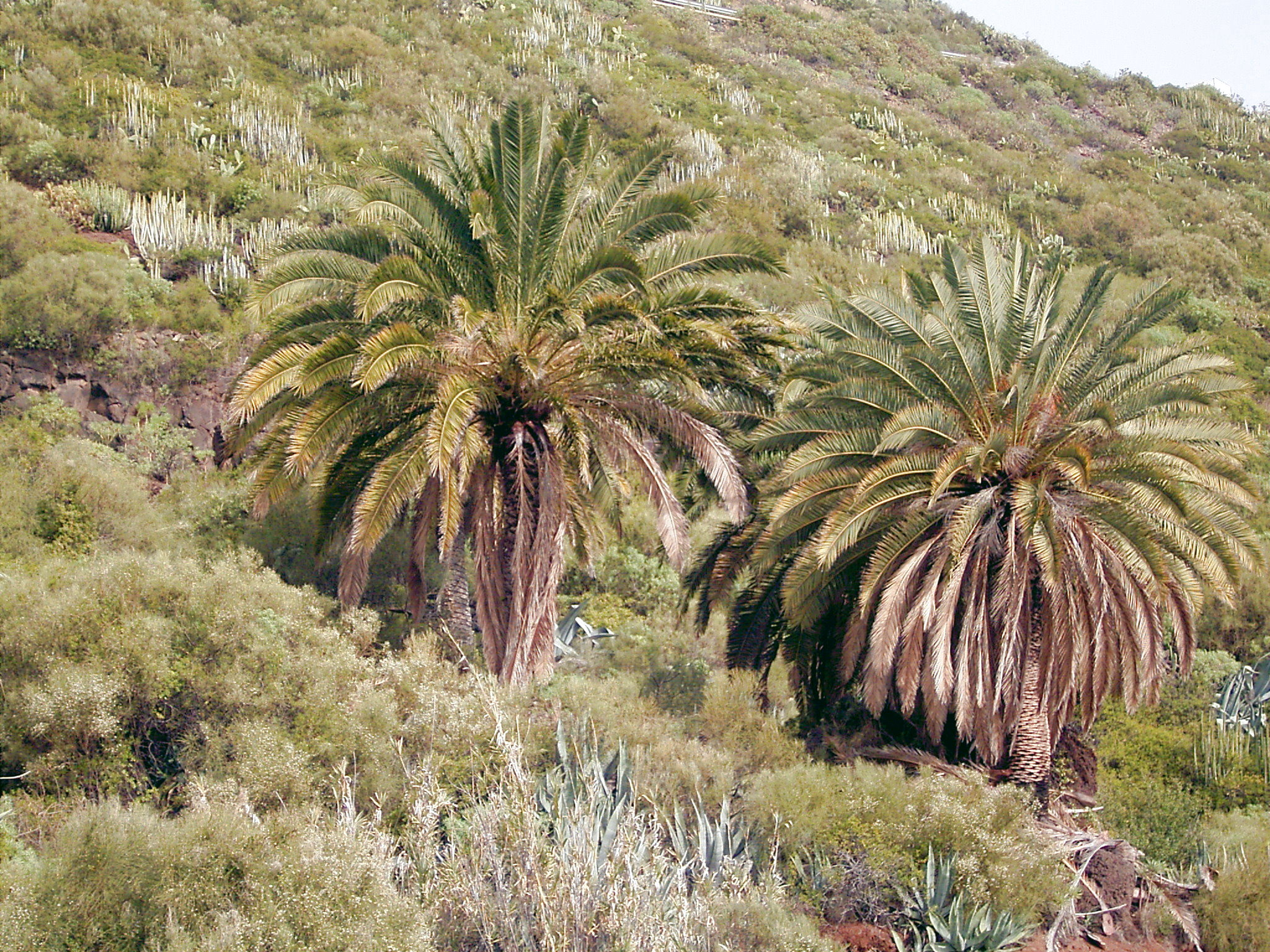 Phoenix canariensis growing in Puntallana, La Palma, Canary Islands.